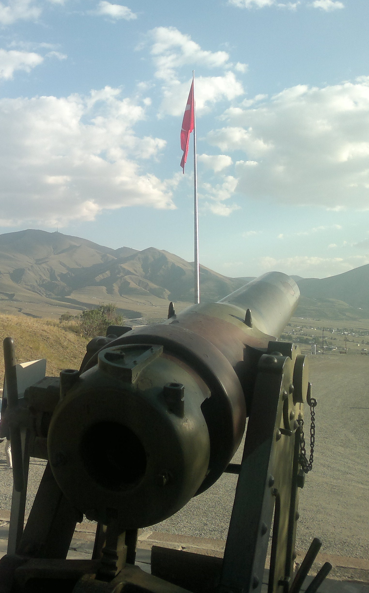 "Erzurum Aziziye Redoubts (Erzurum Tabyaları)" in Erzurum, Turkey.